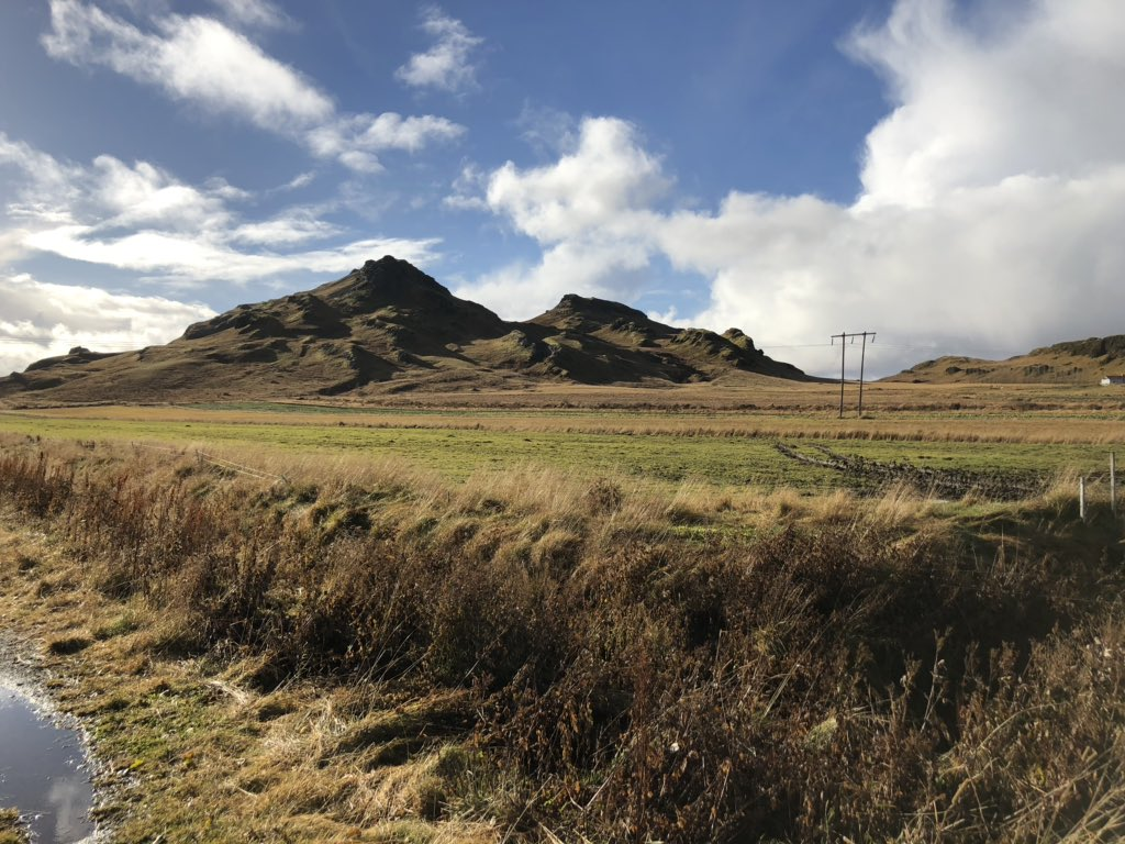 The Miðfell hill near Flùdir (South Iceland) from route 30.